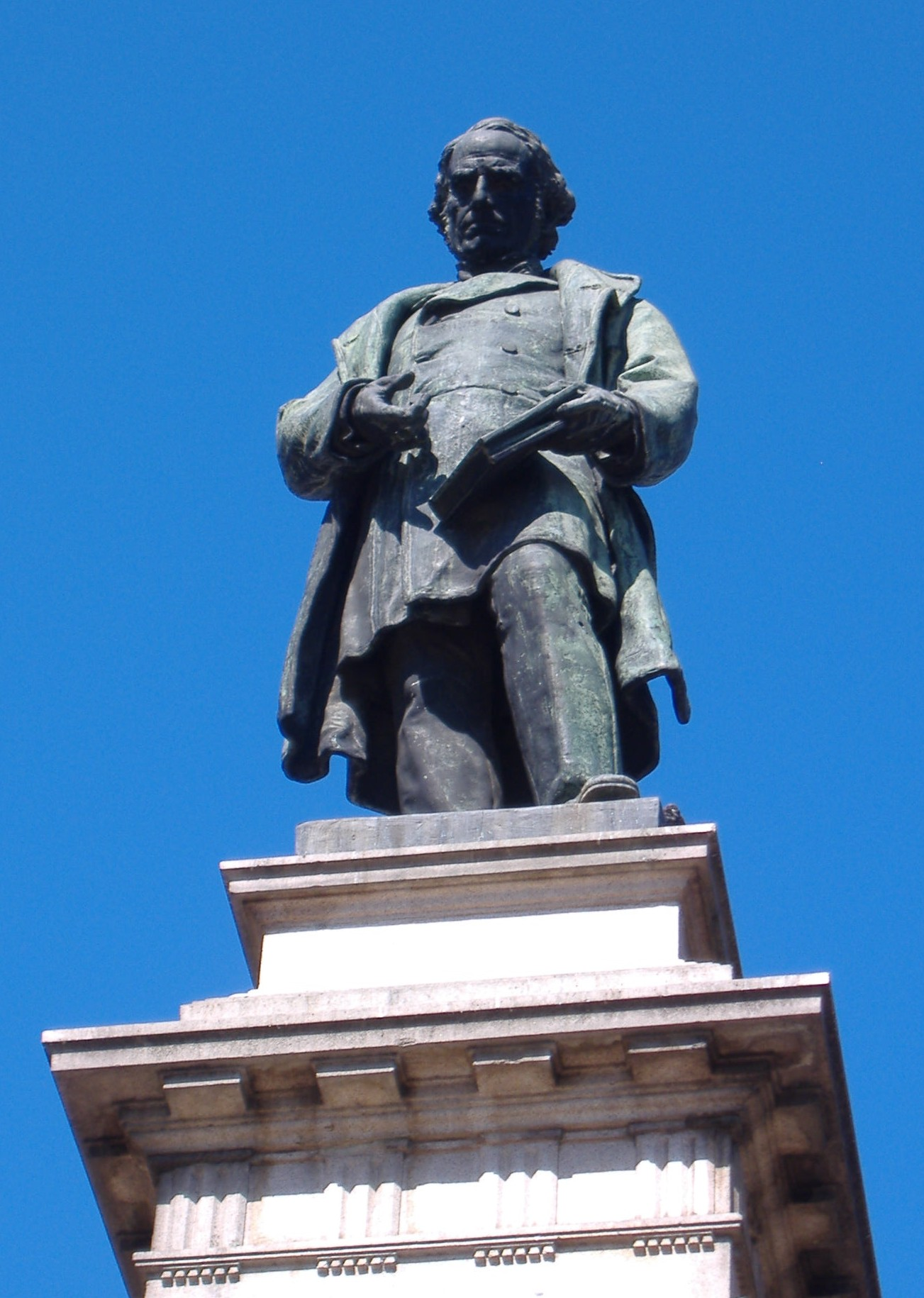 Monument to Dalmacio Vélez Sársfield (Giulio Tadolini, 1897), author of the Argentine Civil Code, in Córdoba, Argentina.